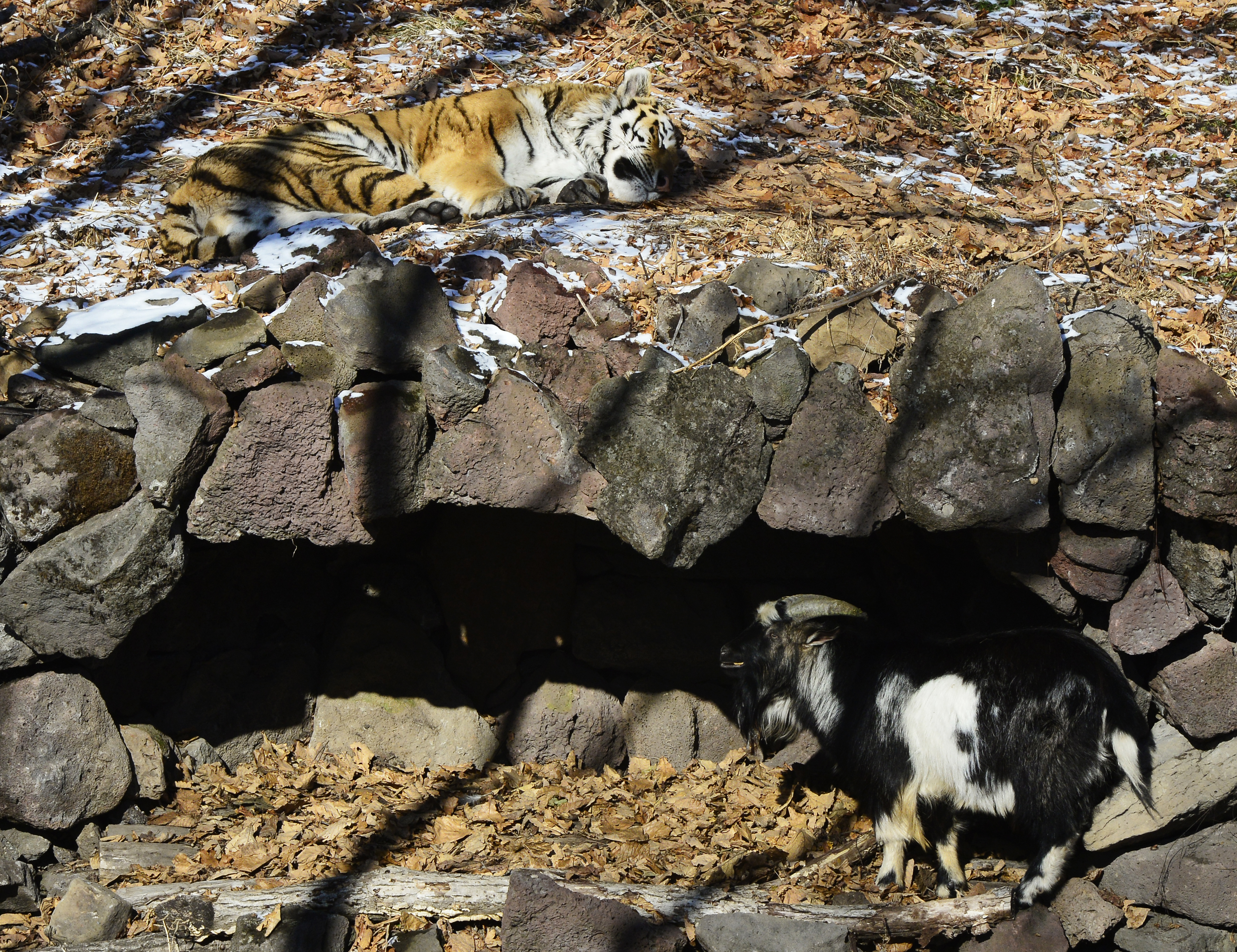 Amur and Timur